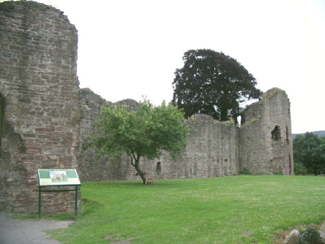 Abergavenny Castle.